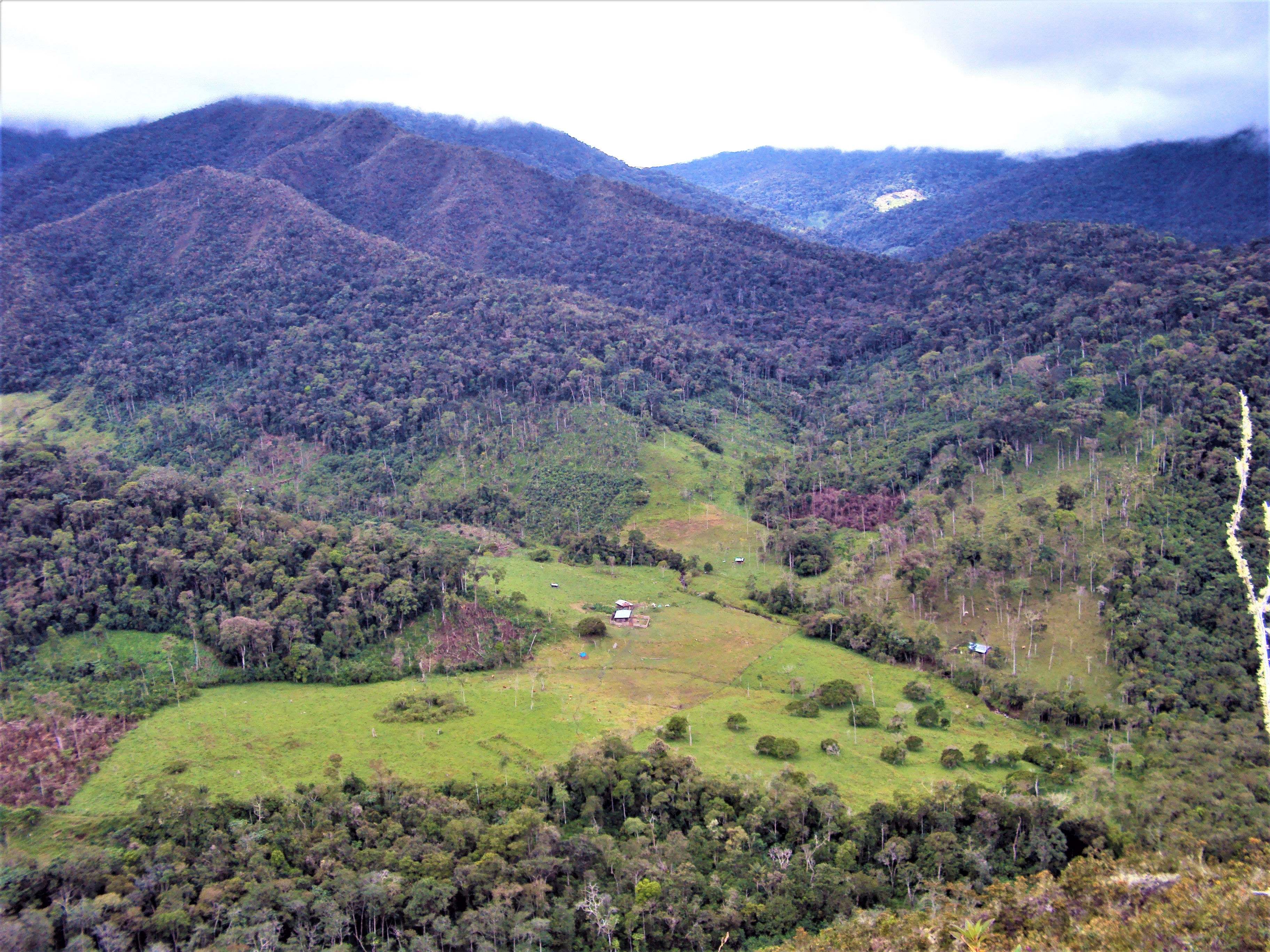 Overview of Posic A, an inca site near Saposoa, Huallaga in the San Martín region, Peru